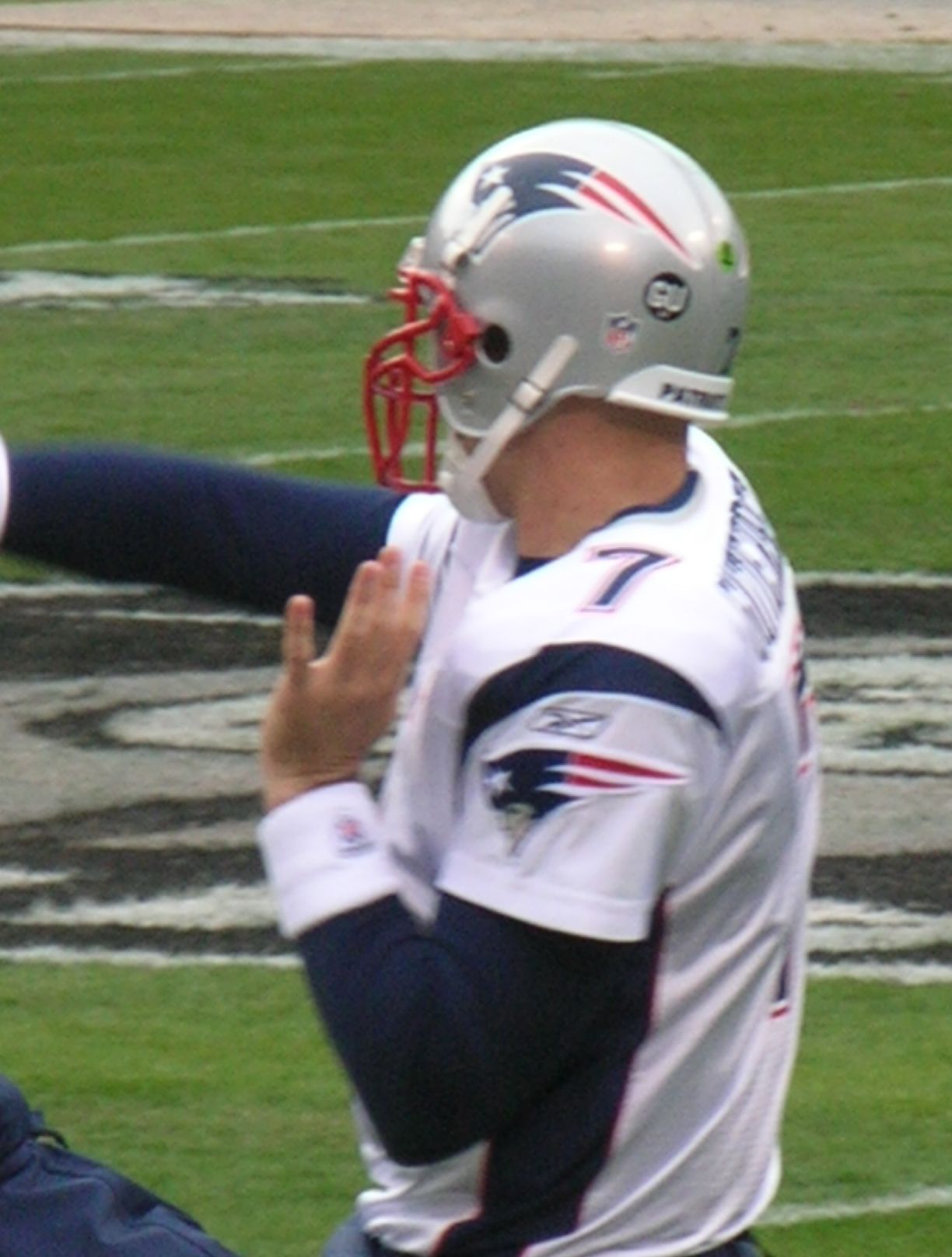 New England Patriots quarterback Matt Gutierrez on the field prior to an away game against the Oakland Raiders. The Patriots won 49-26.